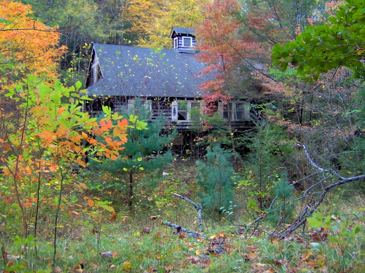 This is "Spindletop" in Elkmont, Tennessee, in the Great Smoky Mountains National Park, located on Little River Road (now the Little River Trail), built by Colonel W. B. Townsend, founder of the Little River Lumber Company, in the early 1900s. W.B. and Alice Townsend built their primary residence across the road that later burned, along with a number of cottages initially rented out to vacationers by Mrs. Townsend after the Colonel's death. The cottages along Little River were sometimes referred to as "Millionaire's Row."